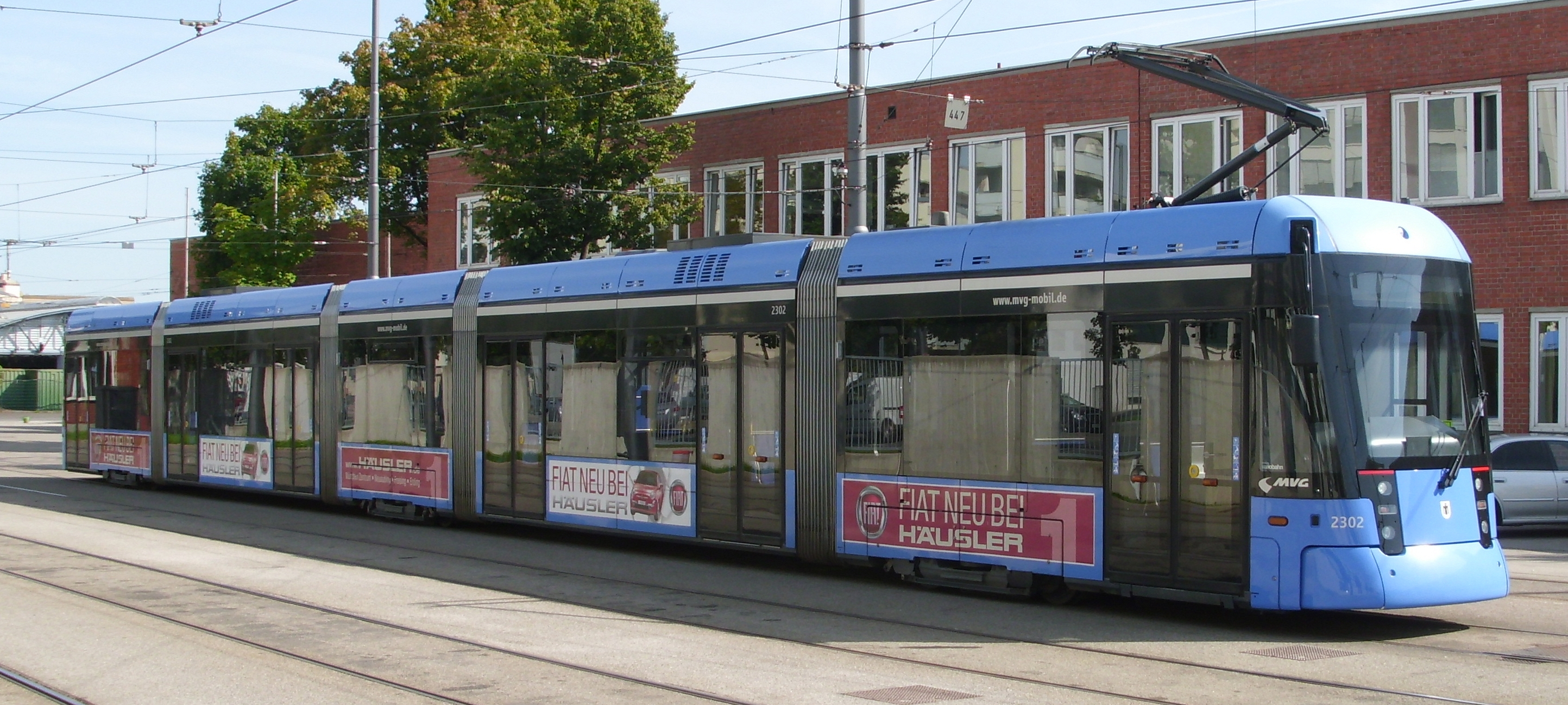 Variobahn 2302 in Steinhausen